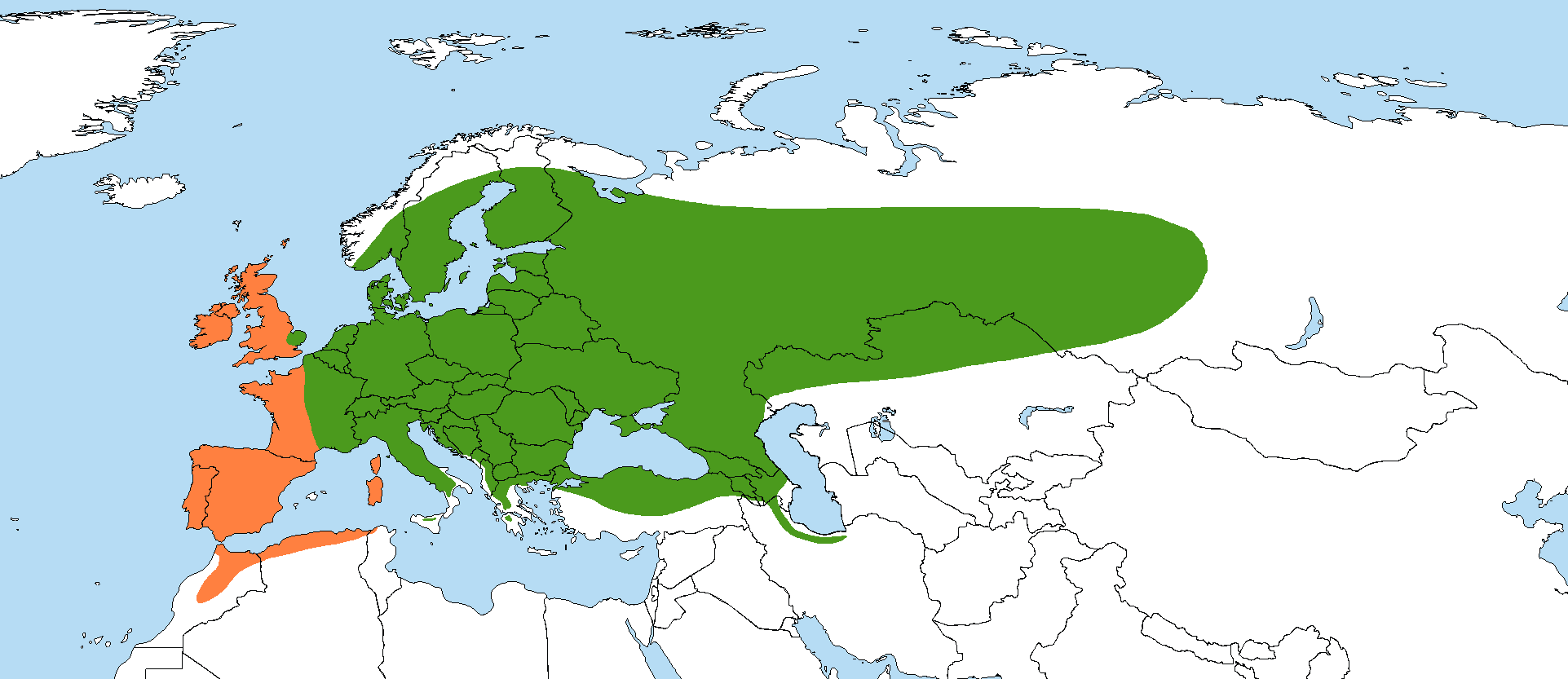 Salix cinerea distribution map — in Europe, northwest Africa, and Eurasia. Green: Salix cinerea subsp. cinerea Orange: Salix cinerea subsp. oleifolia